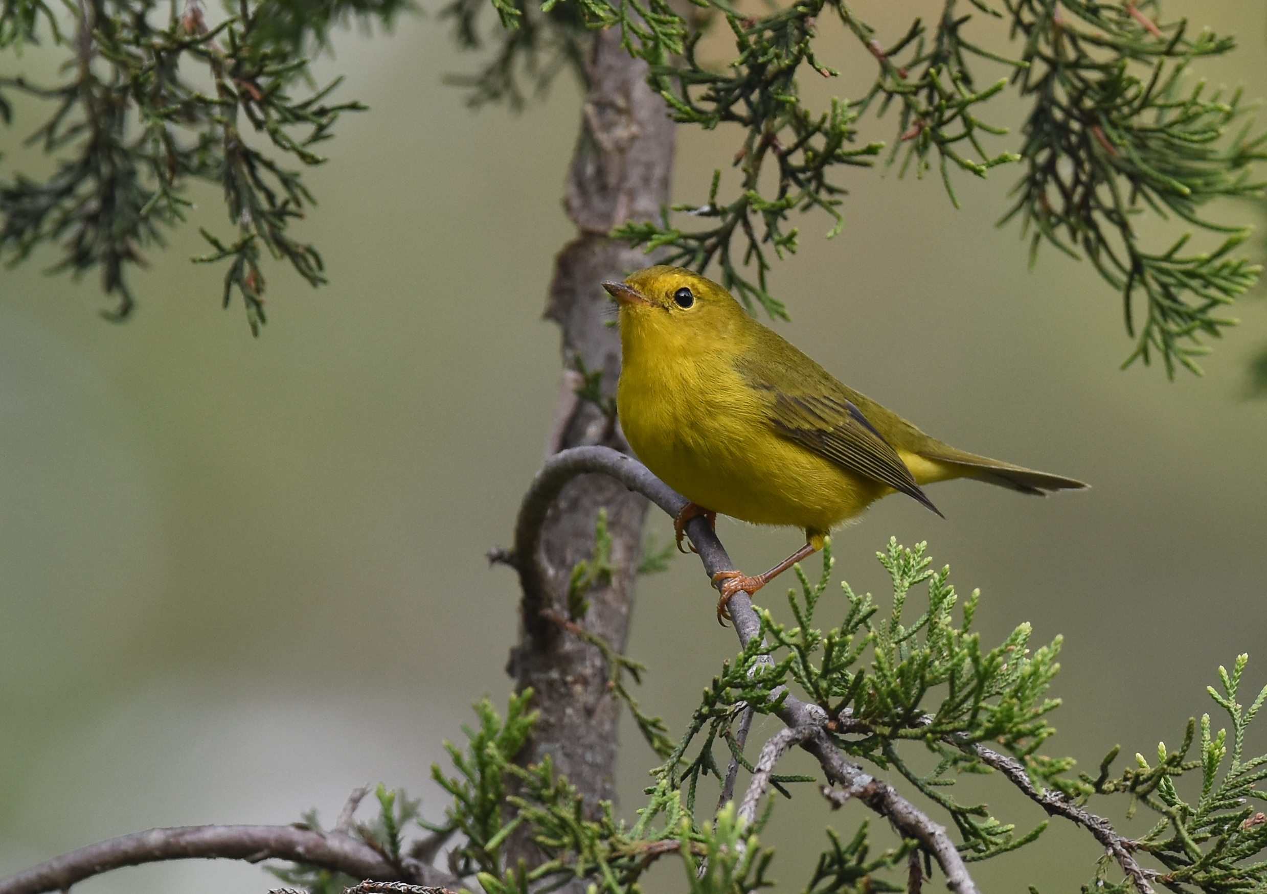 Tower Grove Park 9/21/18